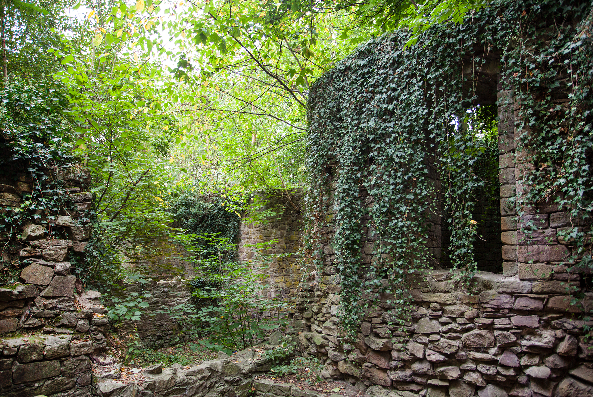 Burgruine in Vlotho auf dem AmtshausbergThis is a photograph of an architectural monument.